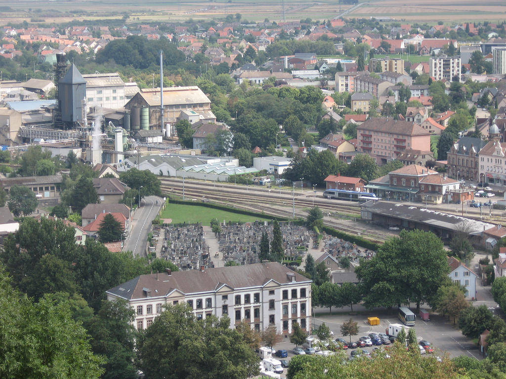 The railway station seen from the castle